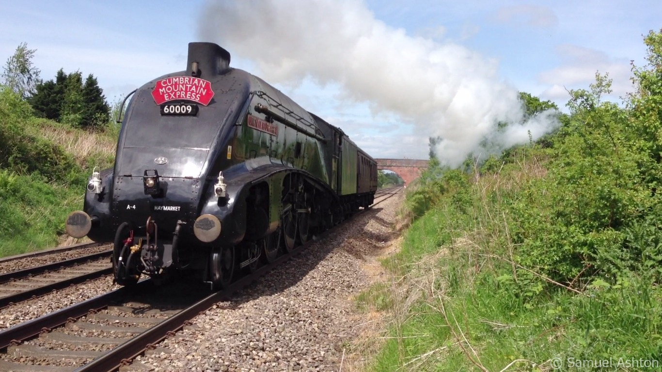 60009 Union of South Africa passes Condover, Shropshire